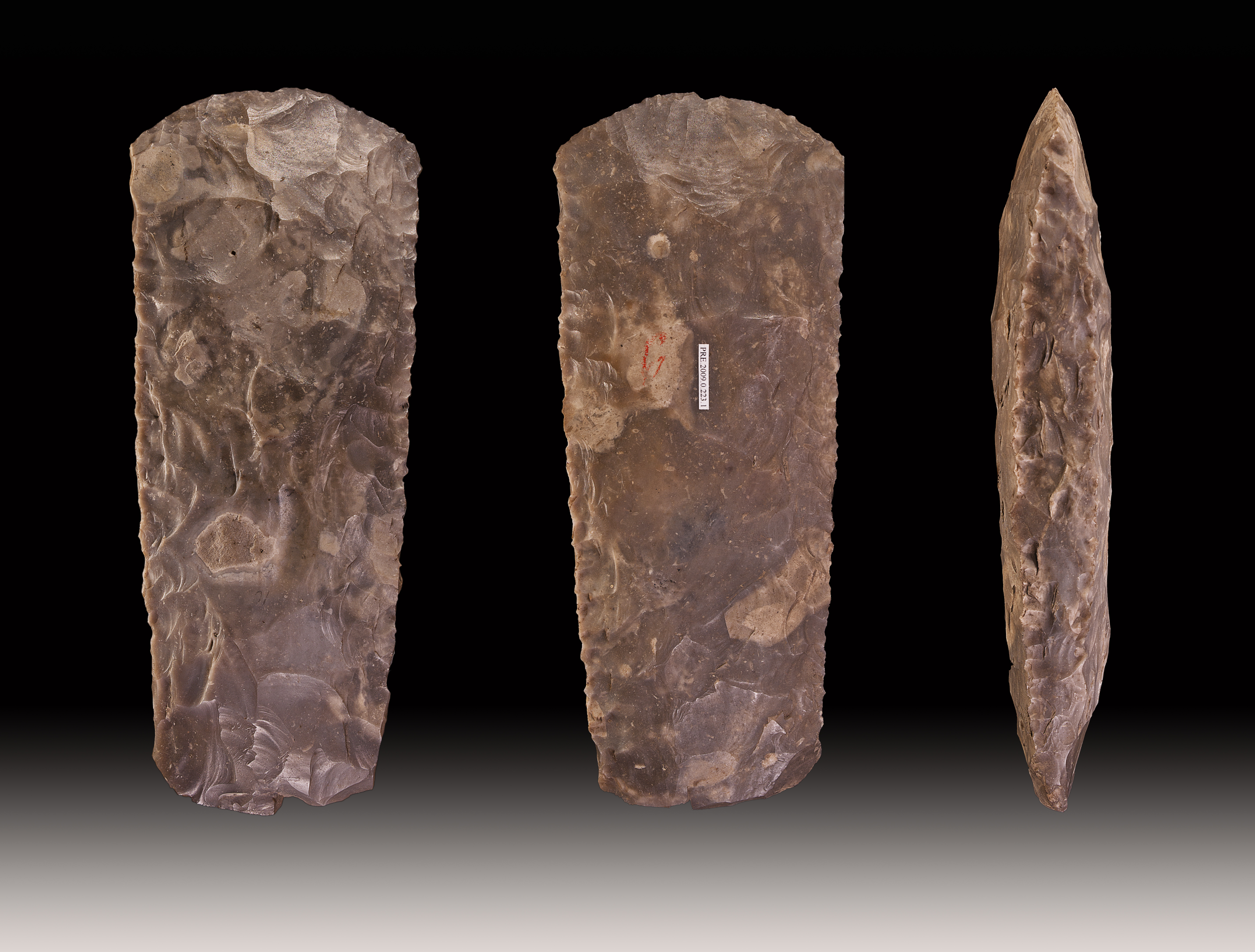 Preform for a polished ax - Different views of the same specimen.